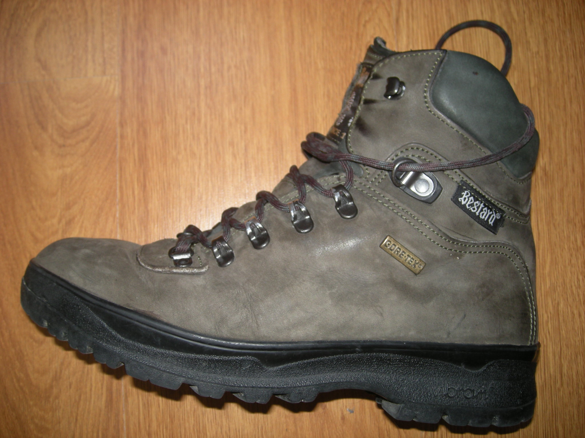 Bestard Tundra mountaineering boots